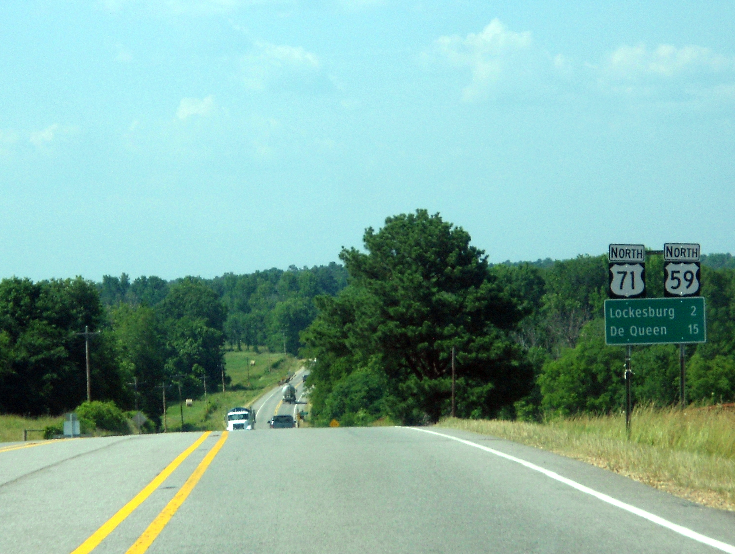 US 59/US 71 south of Lockesburg, Arkansas. Just north of the Highway 317 junction.